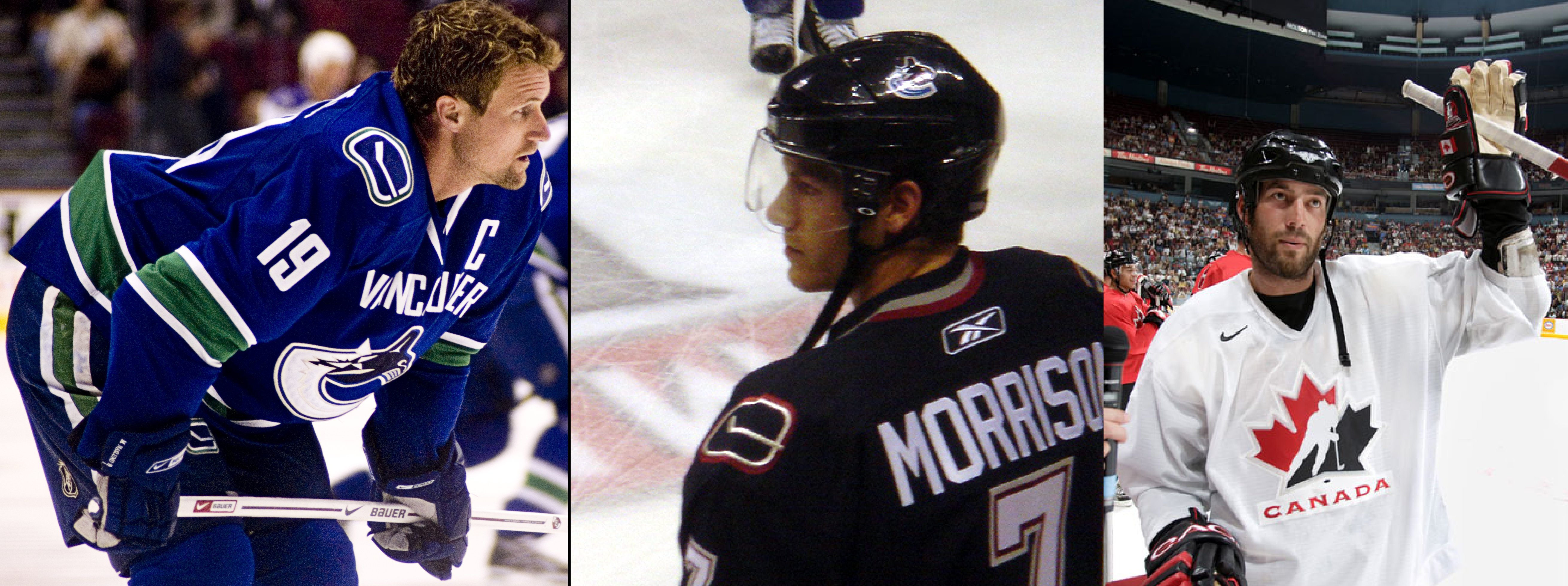 The "West Coast Express" line (from Left to Right) LW Markus Naslund, C Brendan Morrison, RW Todd Bertuzzi. Markus Naslund, captain of the Vancouver Canucks Brendan Morrison with the Vancouver Canucks on the 2005–06 season opener. Todd Bertuzzi waving to crowd, 18. August 2005